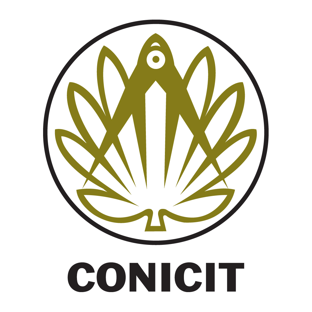 Logo del CONICIT de Costa Rica